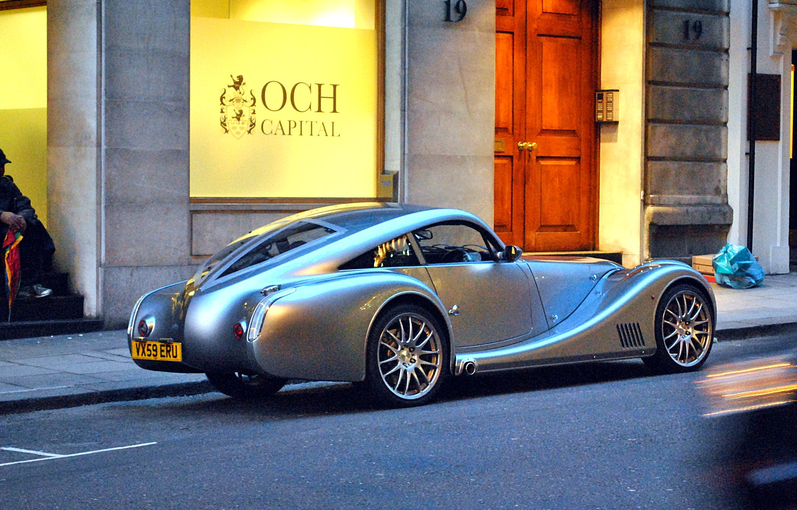 Morgan AeroMax in London